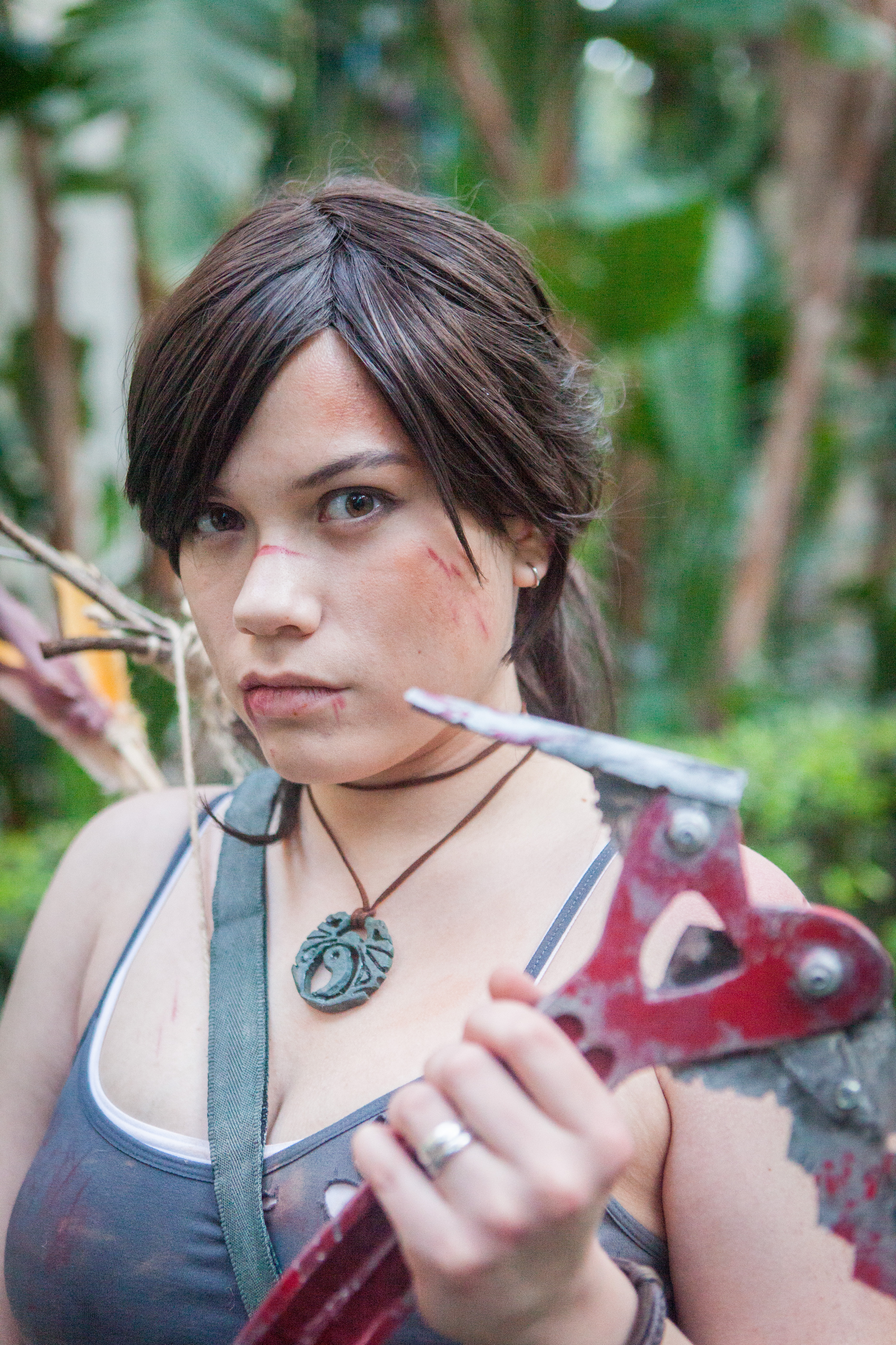 Wondercon 2014-7774